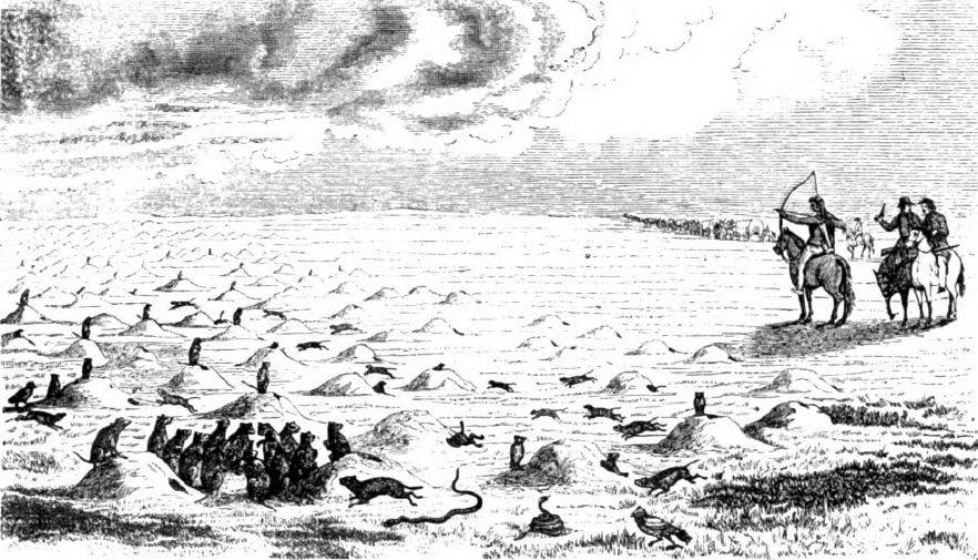 Dog Town or Settlement of Prairie Dogs.